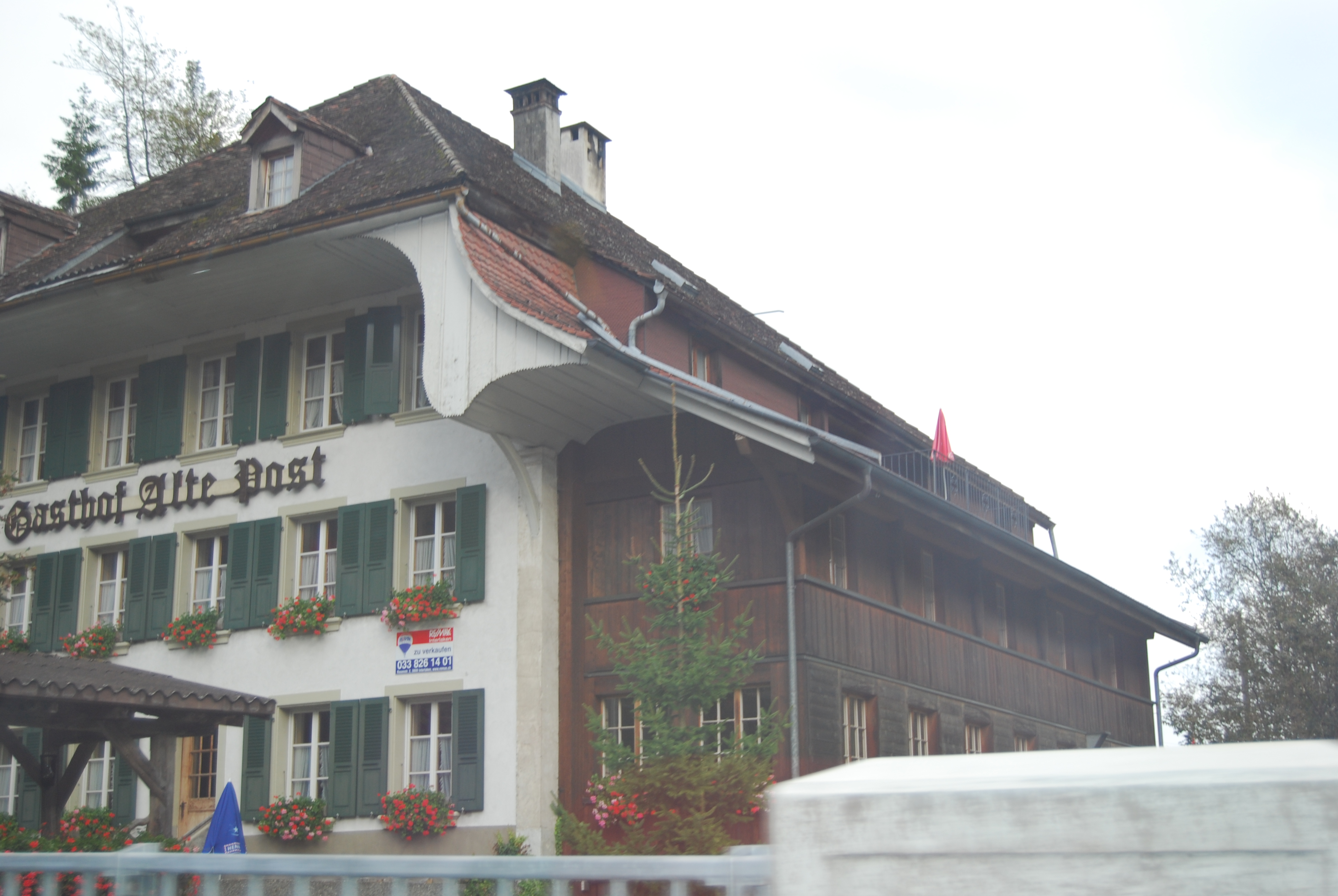 Gasthaus Alte Post at Oberwil im Simmental, canton of Bern, SwitzerlandEsperanto: Gastejo Alte Post en Oberwil en Simme-Valo, Kantono Berno, Svislando